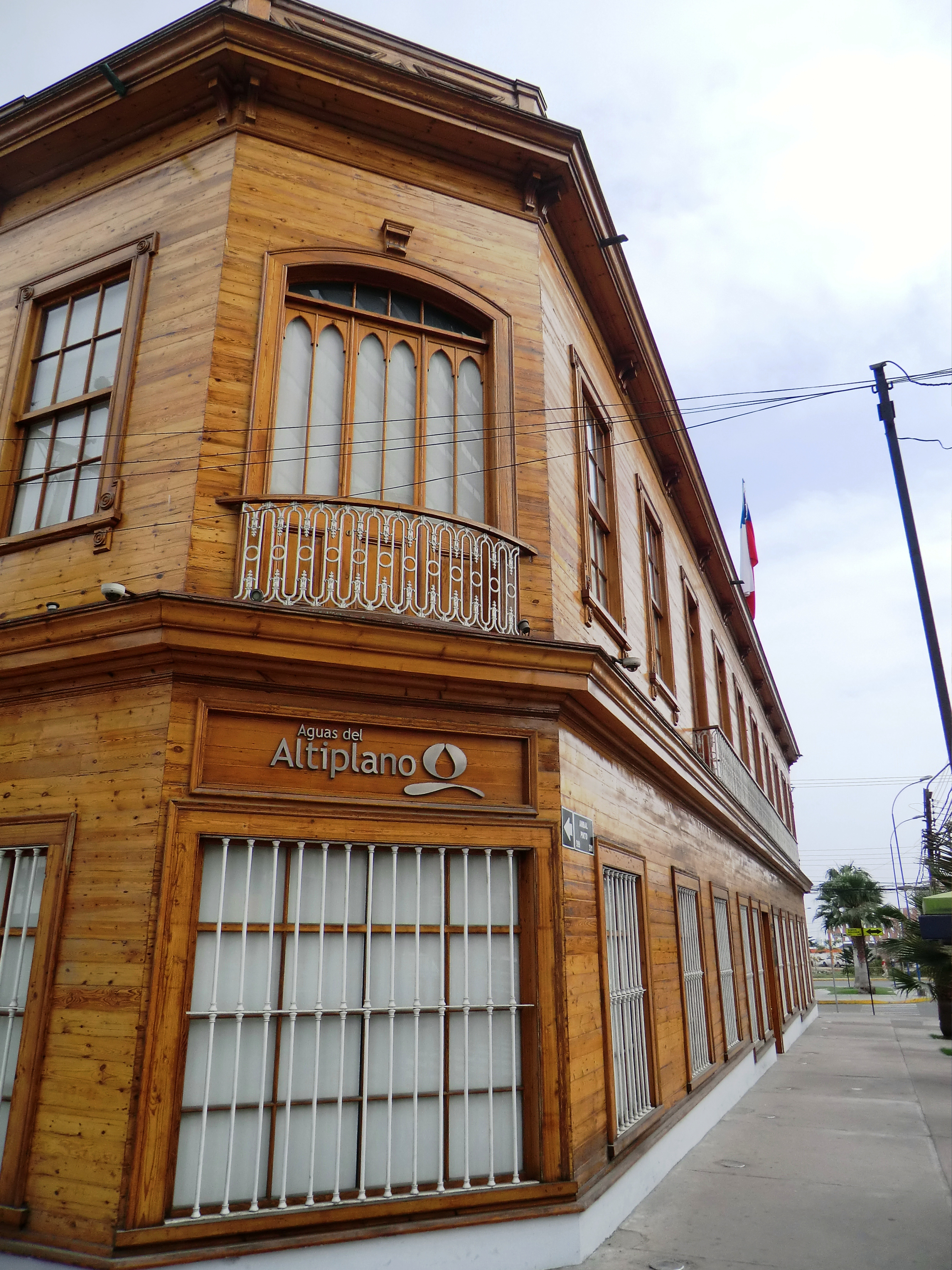 This is a photo of a national monument in Chile: 273